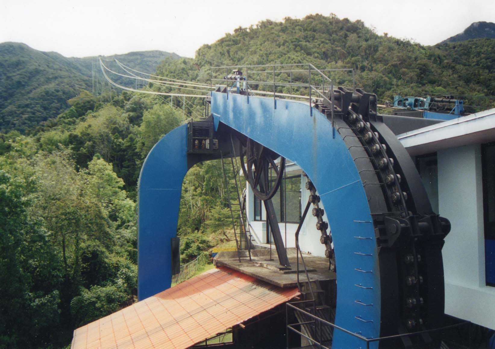 The lowesst station,cable car, Merida. Venezuela.